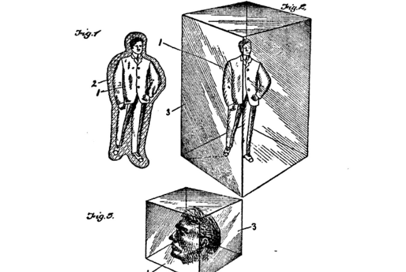 Descriptive drawings showing Joseph Karwowski's air-tight glass coffins designed to preserve dead bodies.